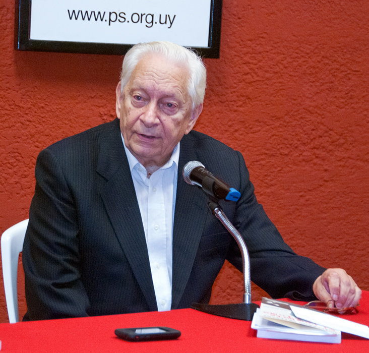 Guillermo Chifflet in the act on the occasion of the presentation of the book written about him